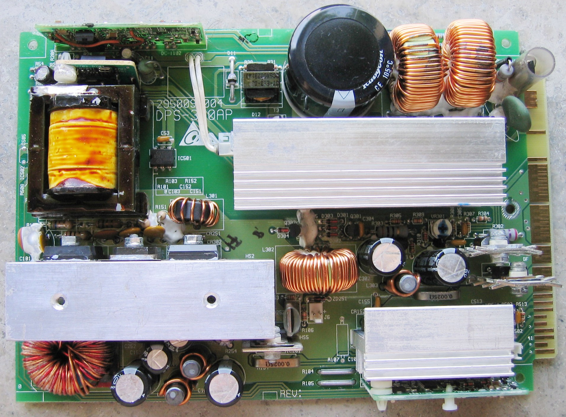 Server Power Supply PCB